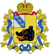 Rylsk rayon (municipal formations, Kursk oblast), coat of arms